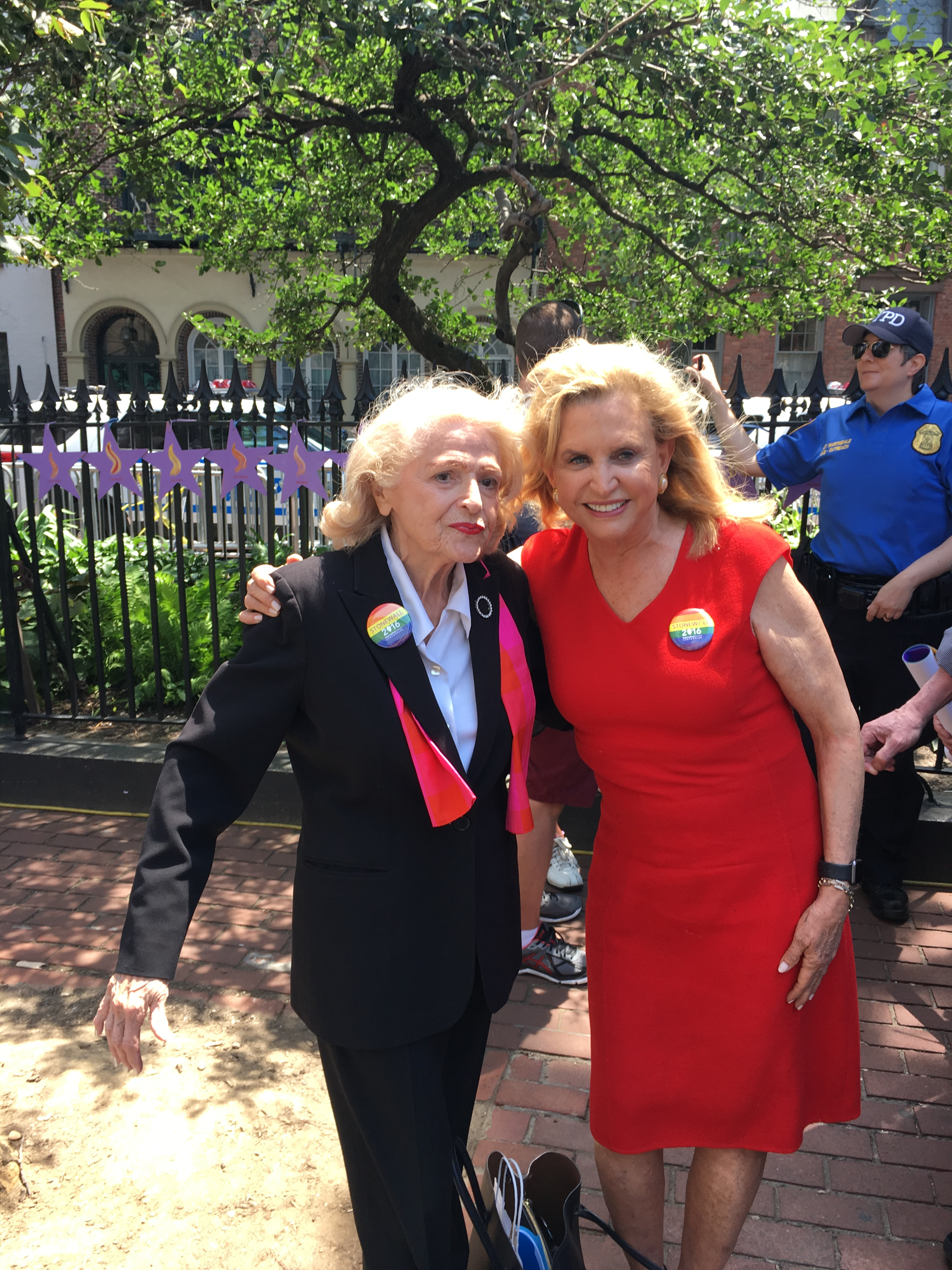 Congresswoman Carolyn B. Maloney and Edith Windsor at the 2016 Dedication of the Stonewall National Monument